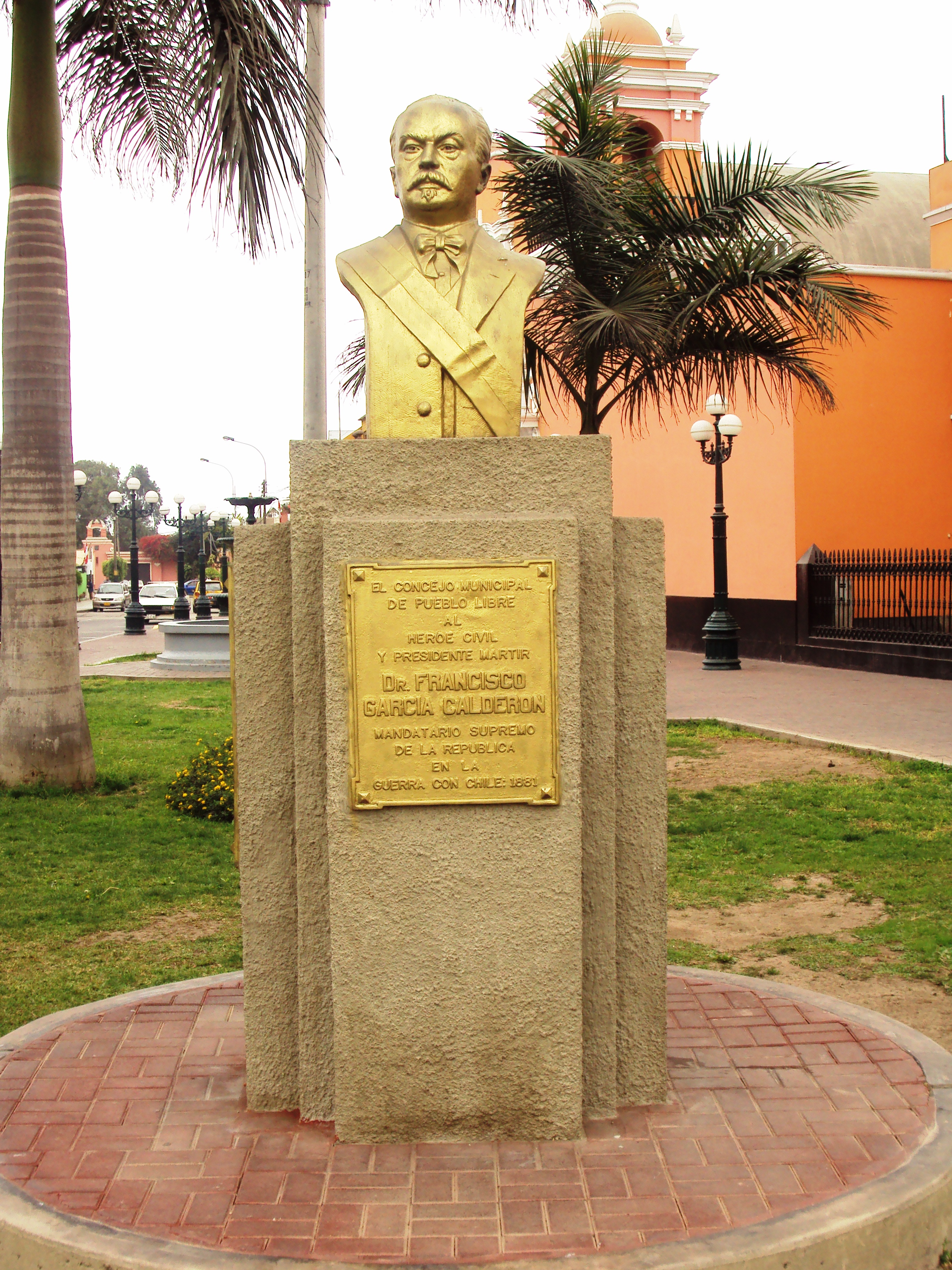 Bust of Francisco García Calderón, President of Perú during the Chilean Occupation of Lima (1881-1883). Pueblo Libre District in Lima, Peru.